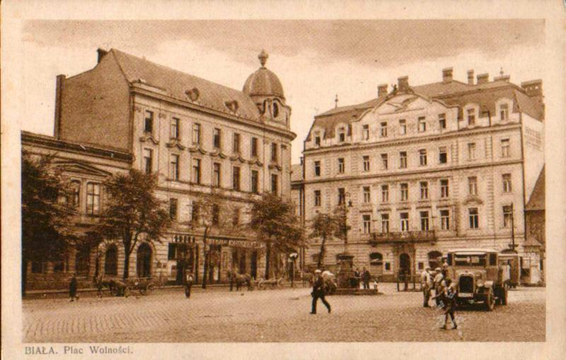 Postcard showing southeast part of Wolności Square in Bielsko-Biała, Poland in 1930.